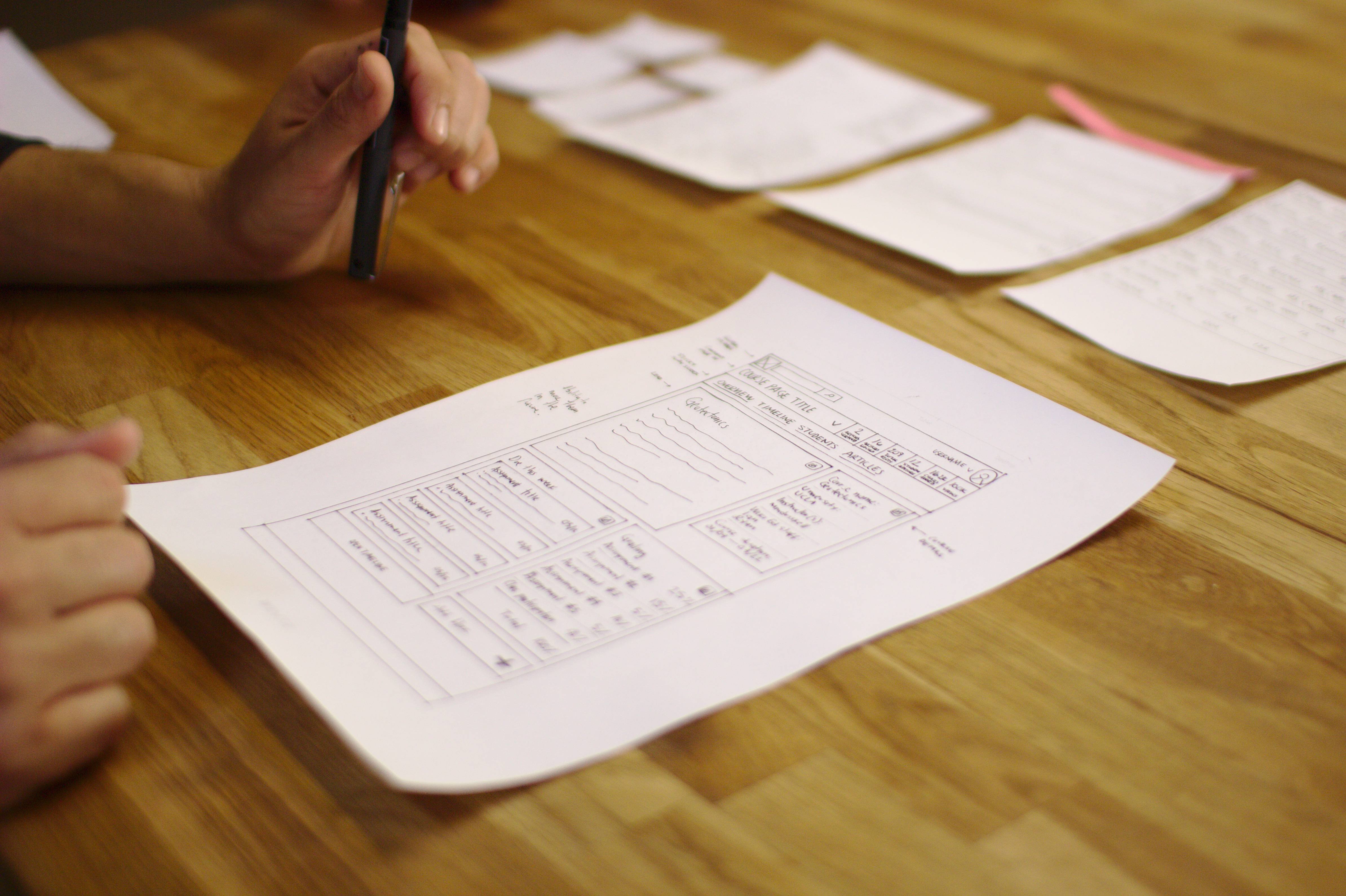 A paper prototype for a design of the course page system, spread out on a wooden table, with the hands of the designer at the ready. Photographed at WINTR.